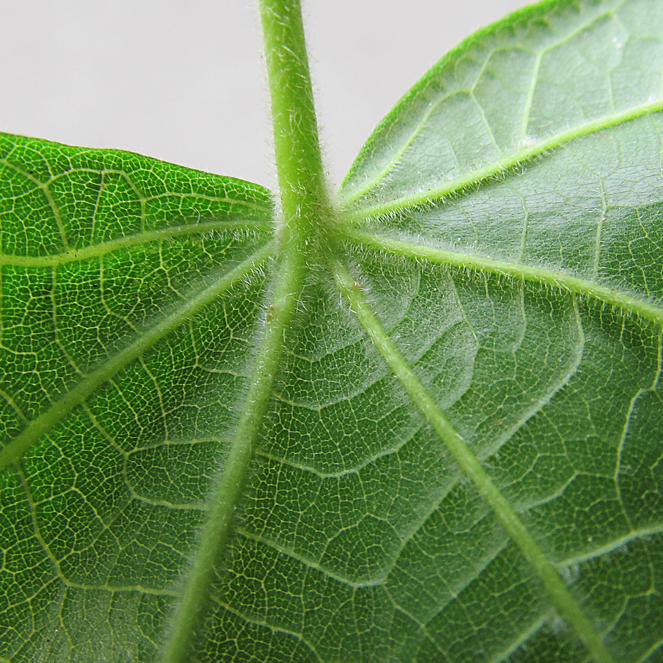 Tilia platyphyllos leaf abaxial